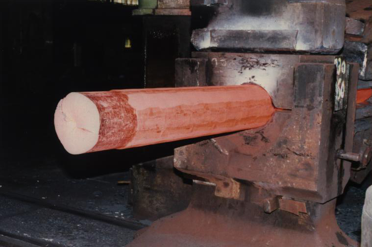 Rod_Rolling photographer: P Hutter taken: 20th January 2005